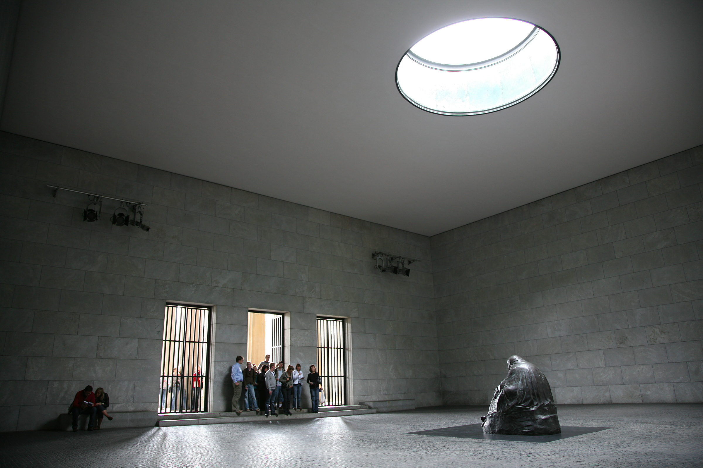 Neue Wache, central memorial of the Federal Republic of Germany for victims of wars and despotism